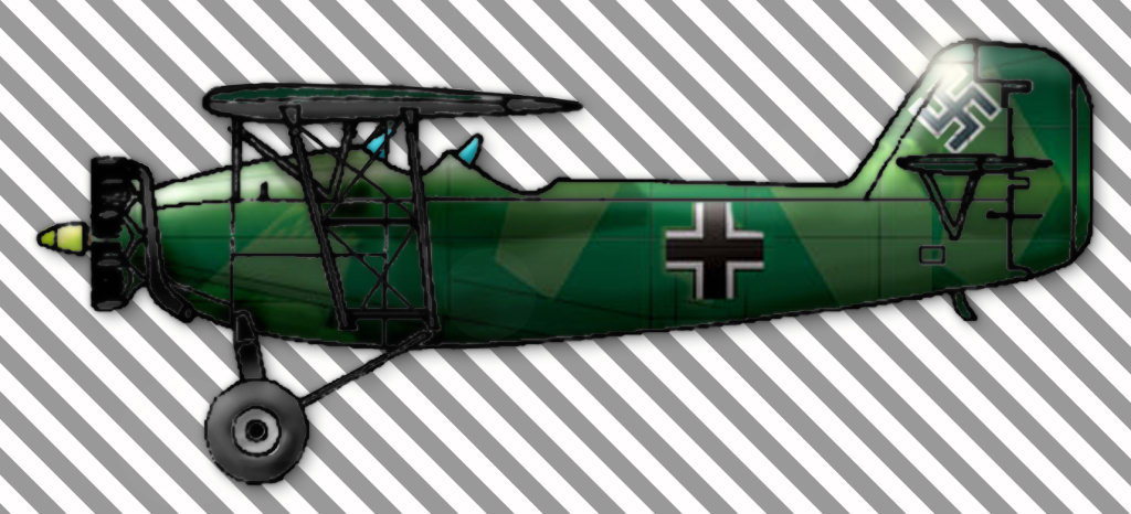 a sketch of a Heinkel He 46